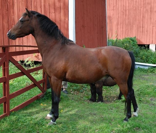 A British Riding Pony gelding named Pennymore Tuesday's Child.